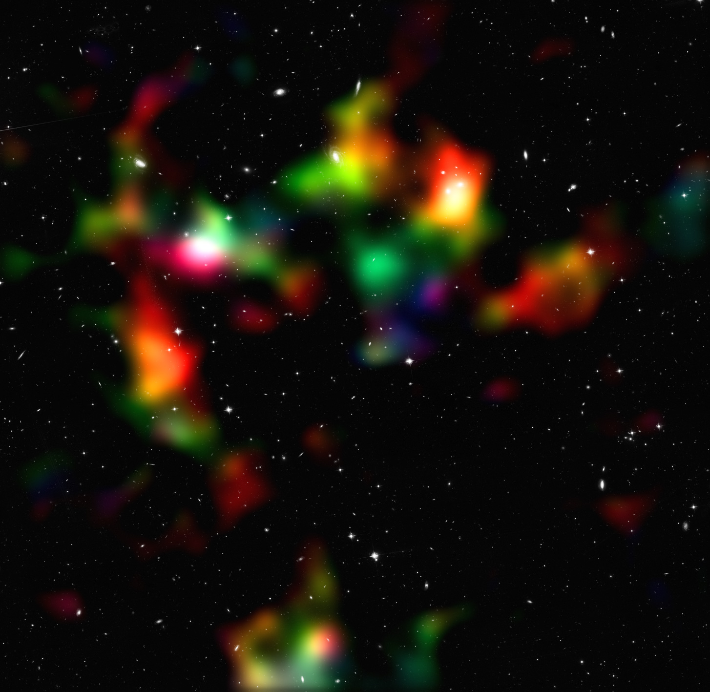 This image shows a smoothed reconstruction of the total (mostly dark) matter distribution in the COSMOS field, created from data taken by the NASA/ESA Hubble Space Telescope and ground-based telescopes. It was inferred from the weak gravitational lensing distortions that are imprinted onto the shapes of background galaxies. The color coding indicates the distance of the foreground mass concentrations as gathered from the weak lensing effect. Structures shown in white, cyan, and green are typically closer to us than those indicated in orange and red. To improve the resolution of the map, data from galaxies both with and without redshift information were used. The new study presents the most comprehensive analysis of data from the COSMOS survey. The researchers have, for the first time ever, used Hubble and the natural weak lenses in space to characterize the accelerated expansion of the Universe.